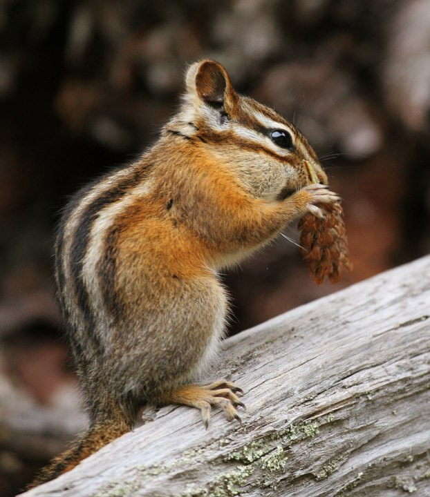 Tamias minimus (Least Chipmunk), Glacier National Park, USA